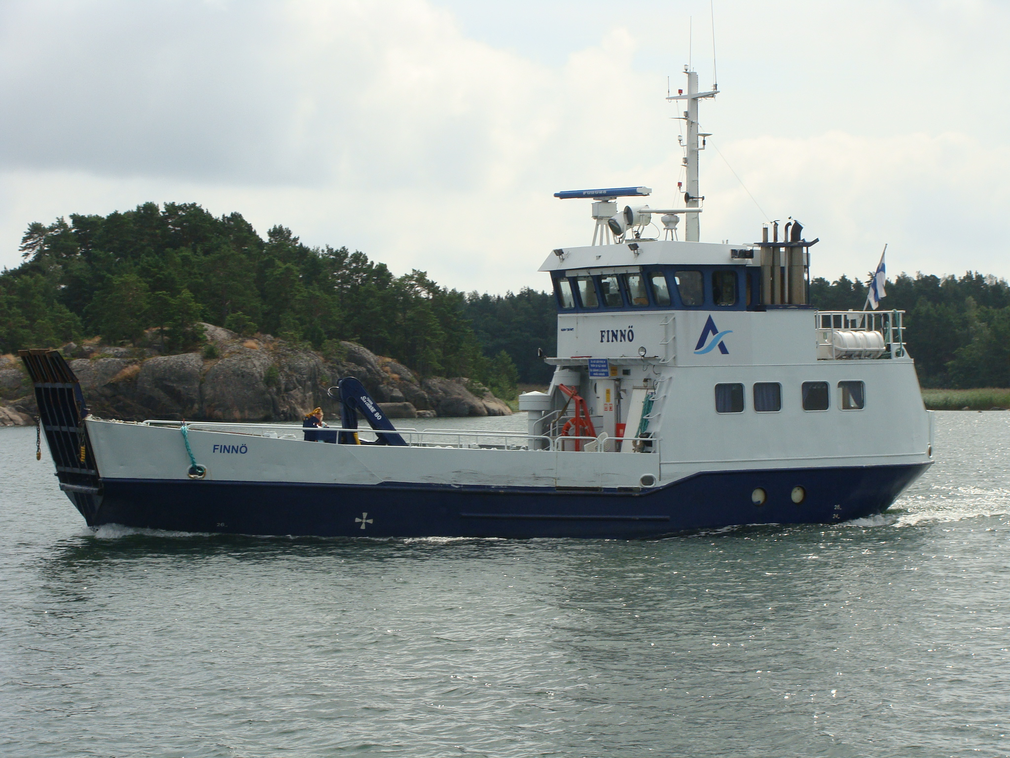 Archipelago ferry M/S Finnö on her way to Verkan harbour by Korpo island in Archipelago Sea in Finland